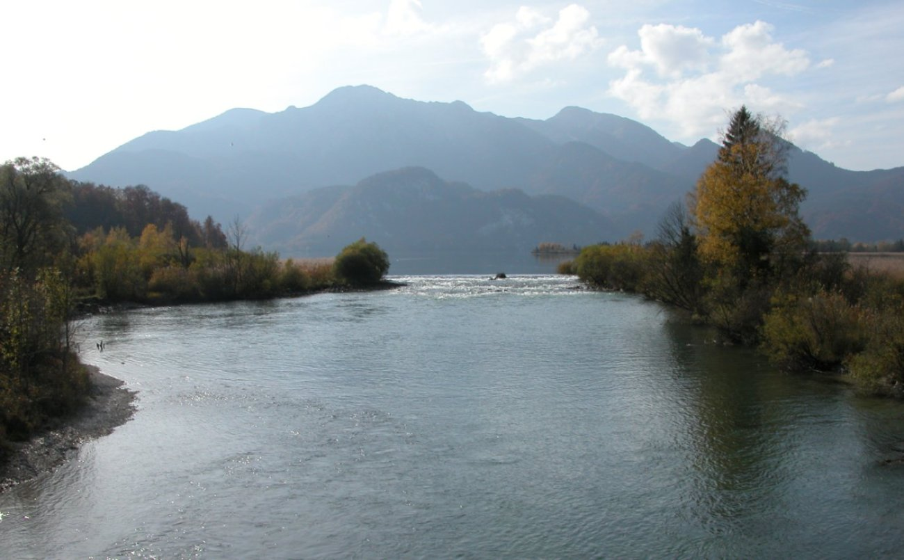 The Bavarian river Loisach coming out of the lake Kochelsee